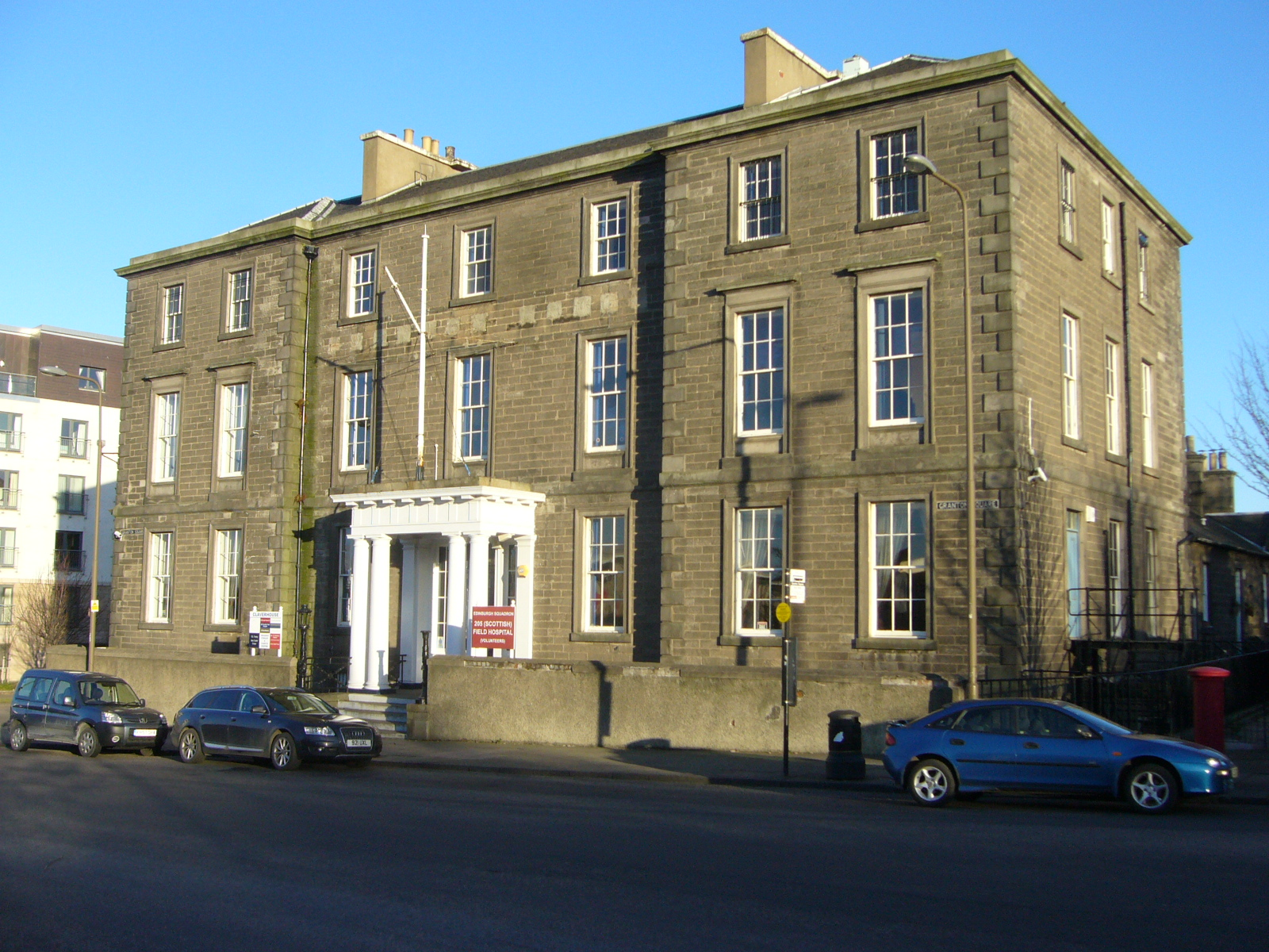 The former Granton Inn, designed by William Burn and built in 1838 as part of the development of Granton Square by the 5th Duke of Buccleuch. It provided a convenient stopping point for ferry passengers en route to the north, especially after the introduction of the Granton-Burntisland rail ferry in 1850. In the 1940s, it became an onshore naval station for Britain's Coastal Forces and still operates as a training centre for Royal Navy Reserves and Cadets.